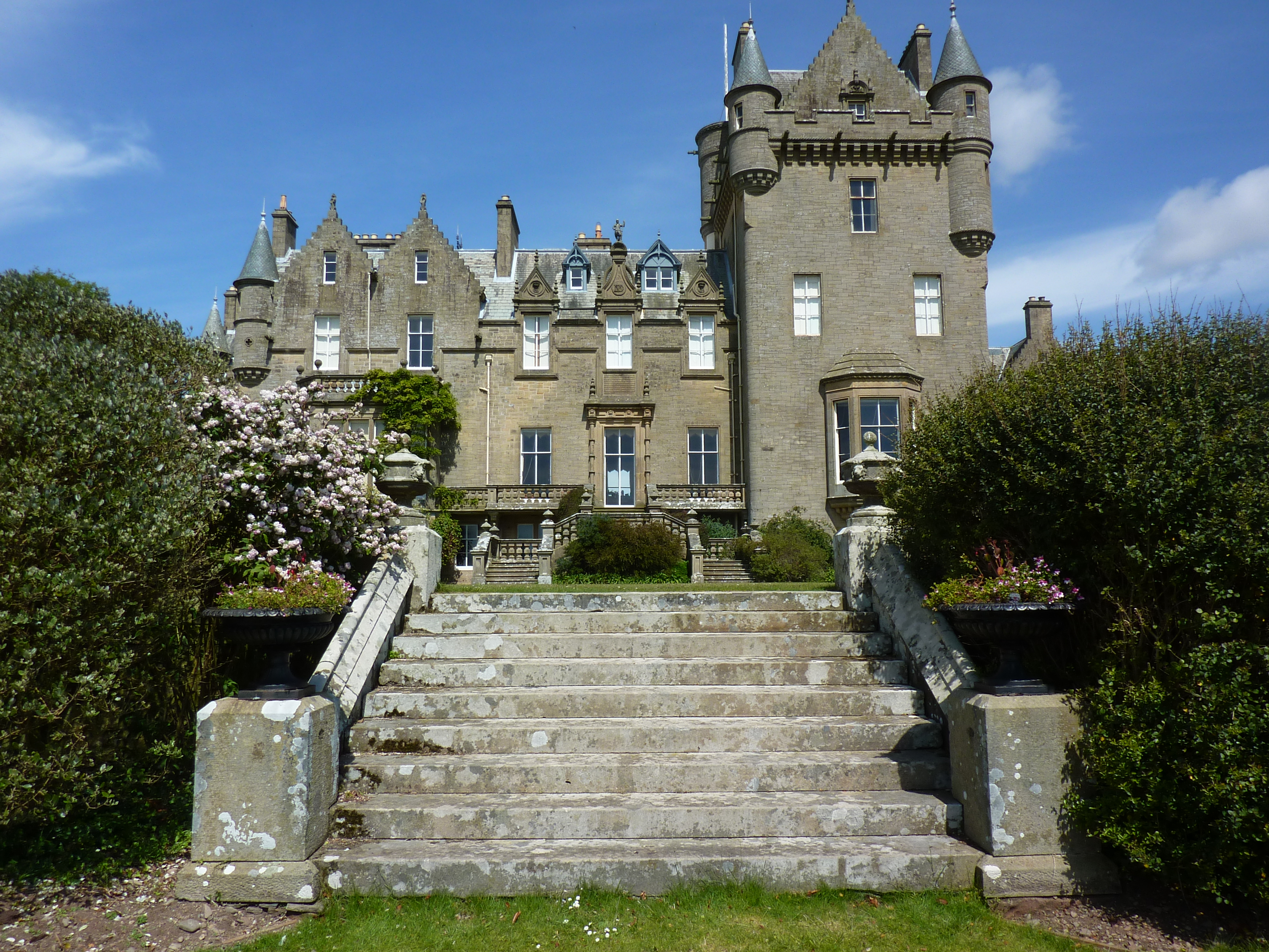 Home to the Earl and Countess of Stair. It's not possible to visit inside, but you can stand just outside the main garden and look at it. Day 2 on the Southern Upland Way blogged about at .uk/southernuplandway/day2